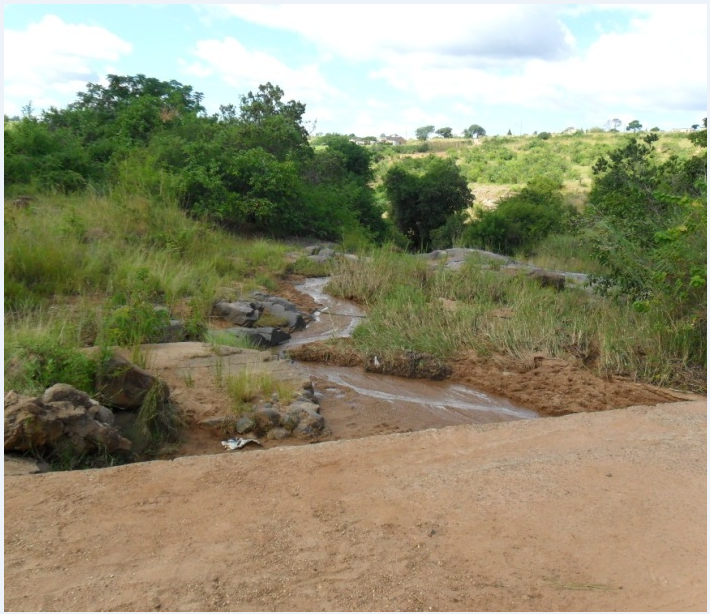 Ndololwane River in Eswatini